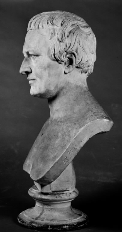 H.W. Bissen (1798-1868), Pianofabrikant Andreas Marschall, 1866